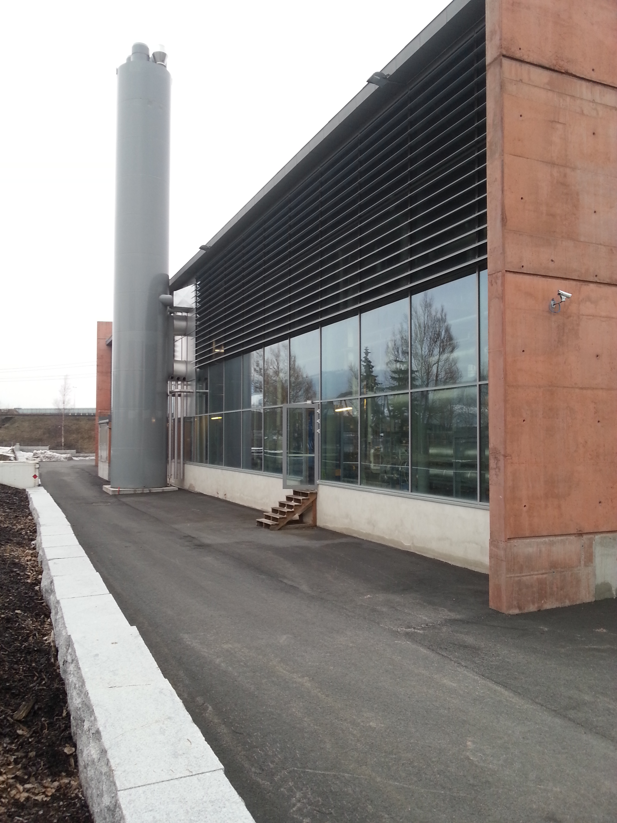 The heat pump building for a large district heating system in Drammen, Norway.